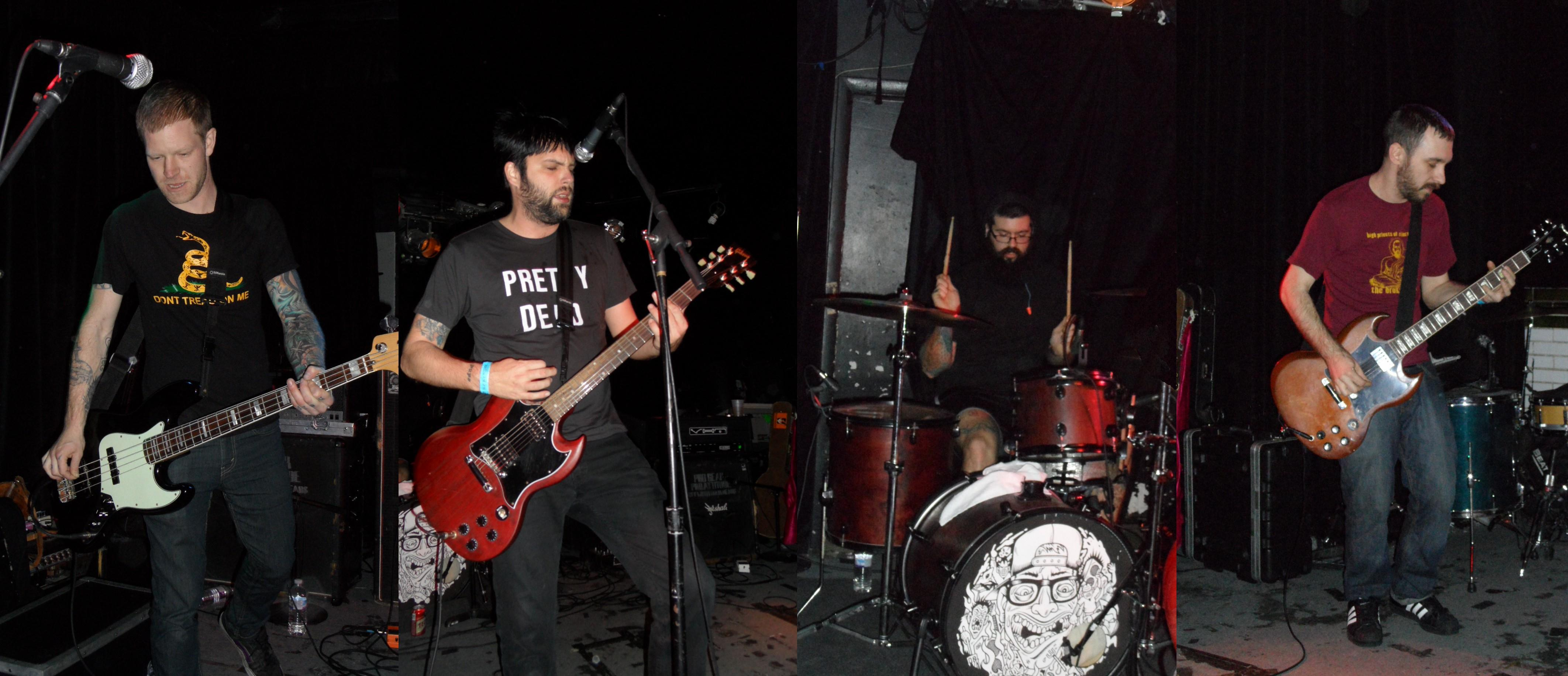 Composite shot of Off with Their Heads performing at the Beat Kitchen in Chicago